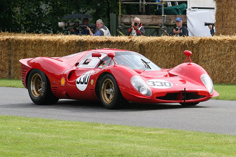 Description: Ferrari 330 P3 Source: Original photograph by Peter Howkins Date: 23 June 2007 Location: Goodwood Festival of Speed, Goodwood House, Sussex, UK. Author: Peter Howkins (wikipedia ID: Flibble) Permission: Creative Commons Attribution 2.5 license Other versions of this file: Camera was Canon EOS 20D Lens was Canon EF 70-210mm f/3.5-4.5 USM